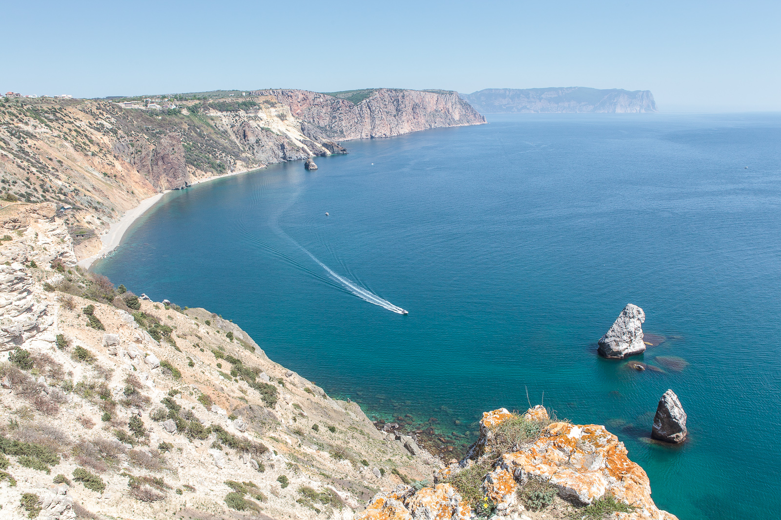 Sevastopol, Crimea, Ukraine - Sea Shore